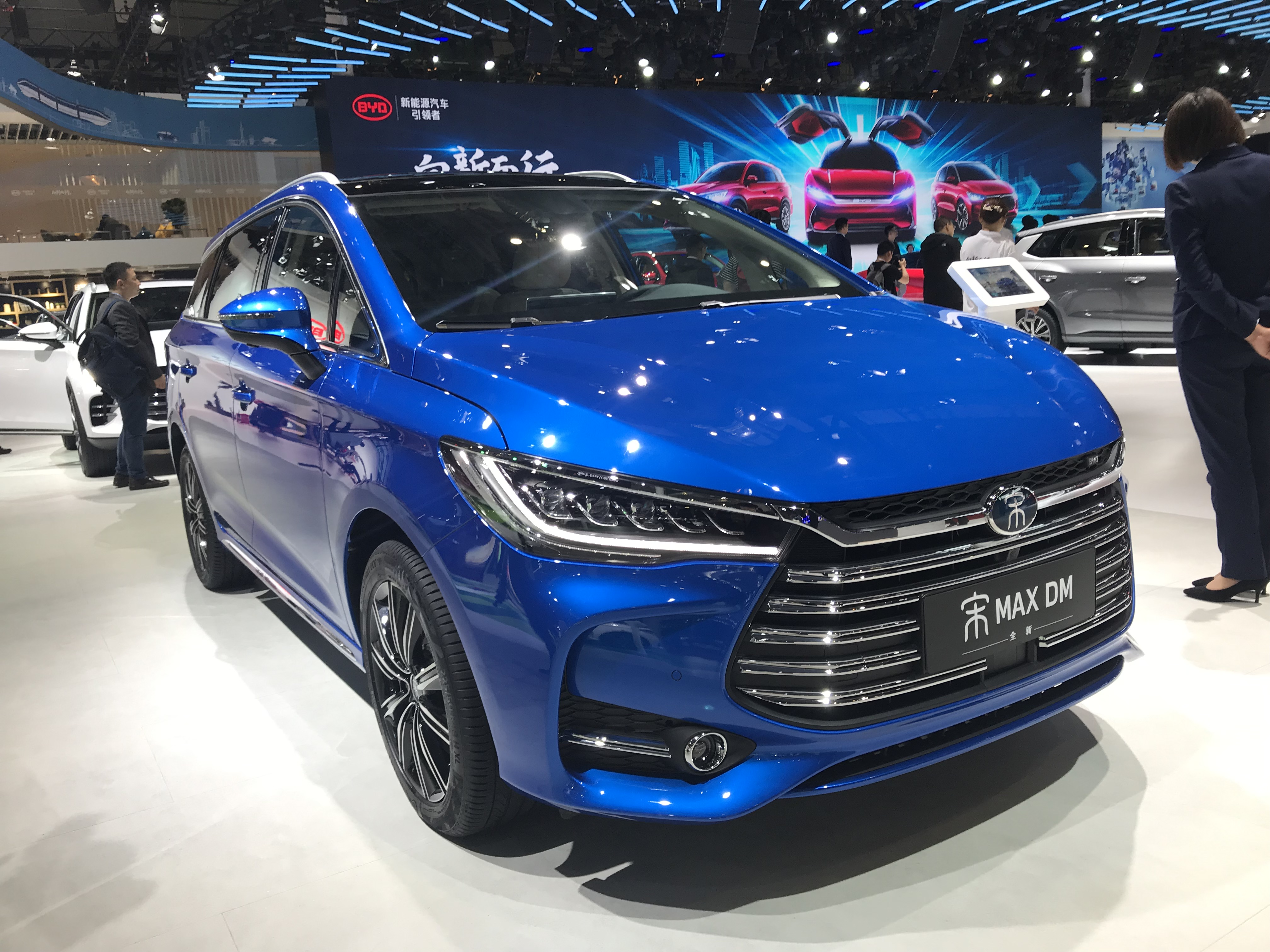 BYD Song Max DM